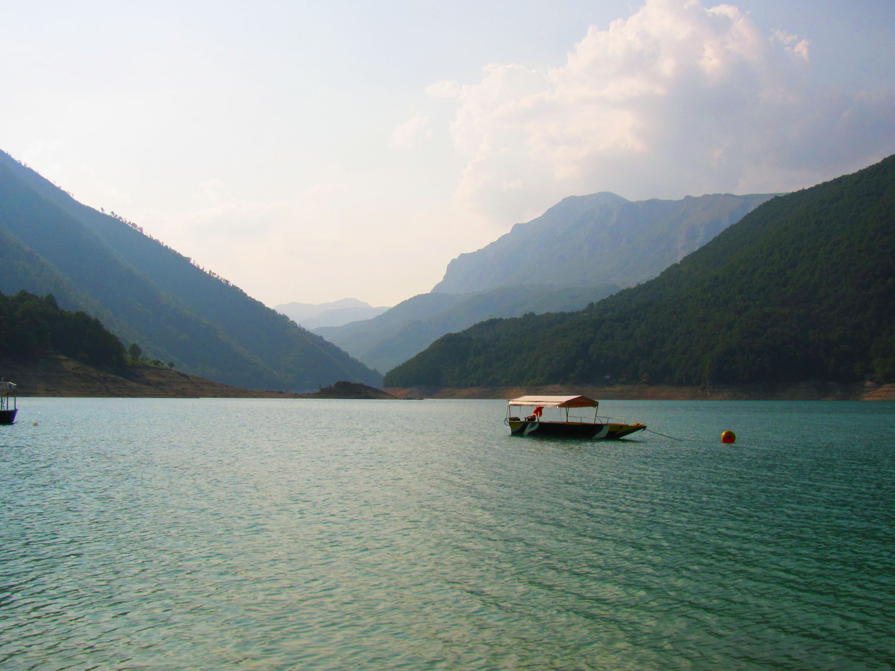 A view from the beach to the lake in Pluzine.